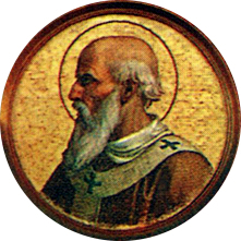 Portrait of Pope Leo II